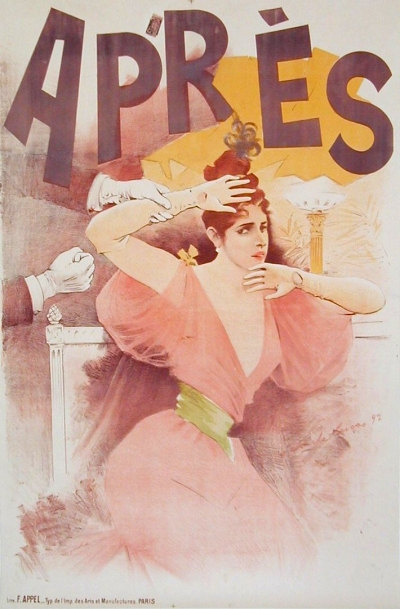 Poster Après